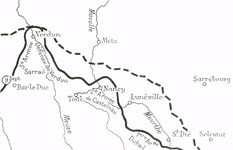 Map showing German attacks at Verdun and St. Mihiel, 9 September 1914